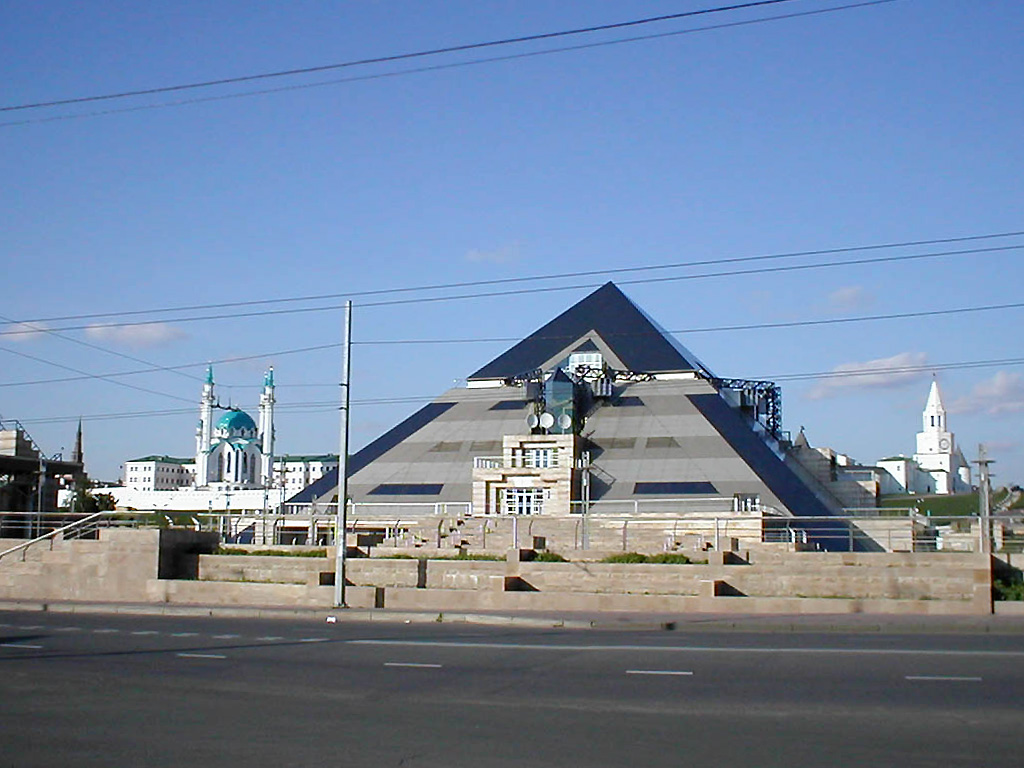 Pyramid culture-entertainment complex in Kazan